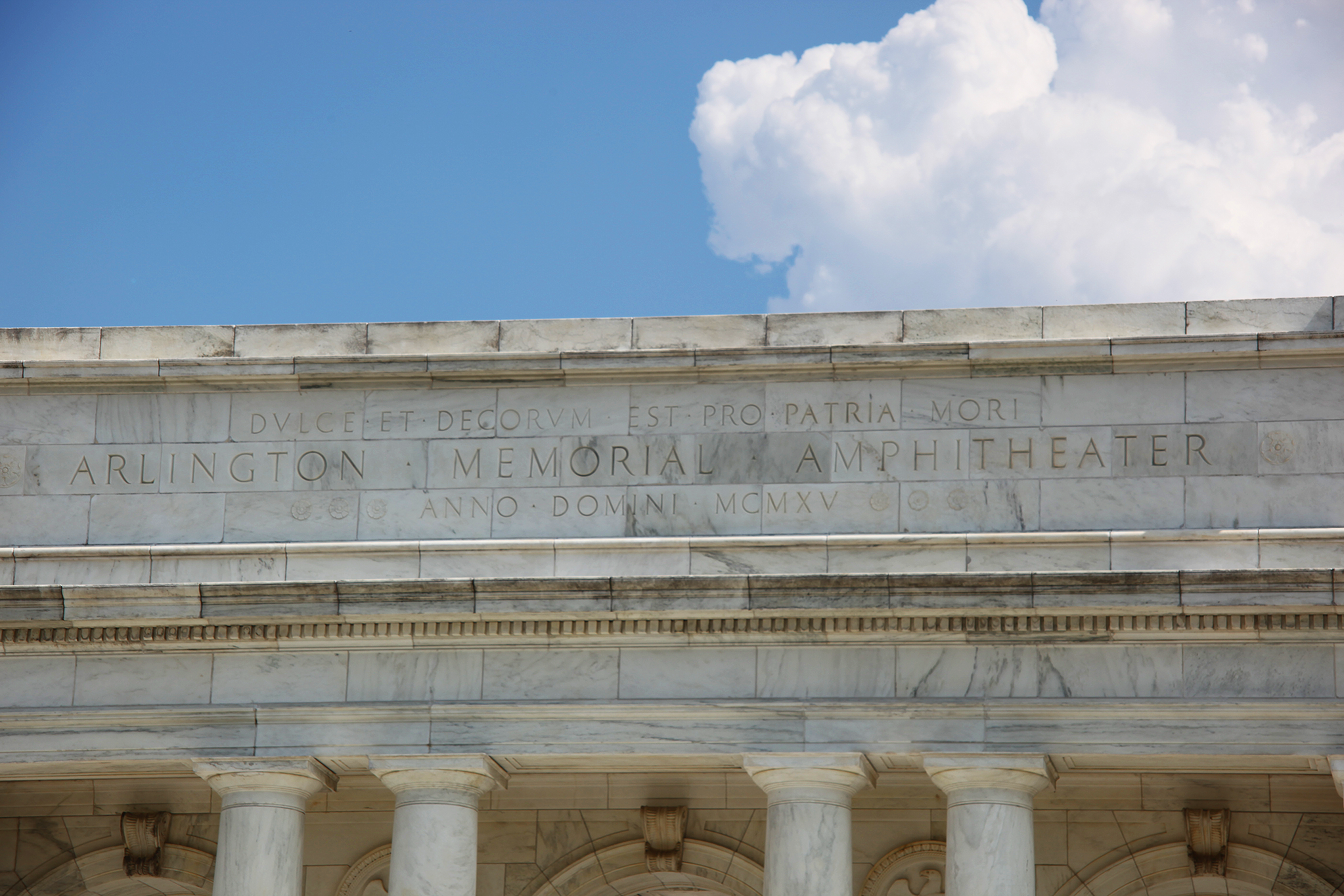 Detail of the inscription over the rear entrance to Arlington Memorial Amphitheater at Arlington National Cemetery in Arlington, Virginia, in the United States. The amphitheater was dedicated on May 15, 1920. The inscription reads: "Dulce et decorum est pro patria mori". This is a line from a poem by the ancient poet Horace. In English, it means "It is sweet and fitting to die for one's country."